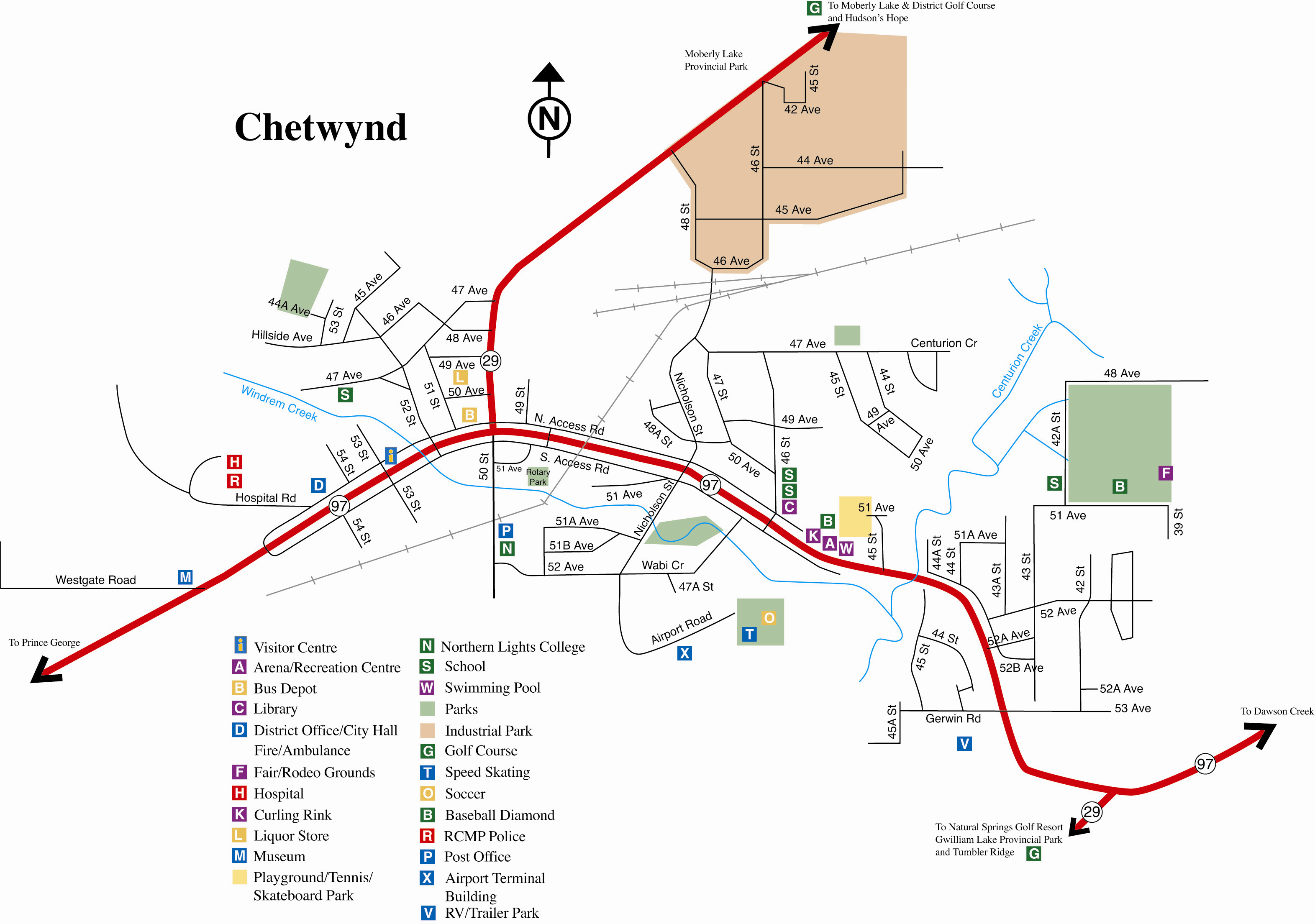 Image shows the street layout of Chetwynd, along with the Windrem Creek flowing southeast into Centurion Creek flowing southwest. Used with permission, see Wikipedia:Successful requests for permission/Chetwynd. Source: Hello North